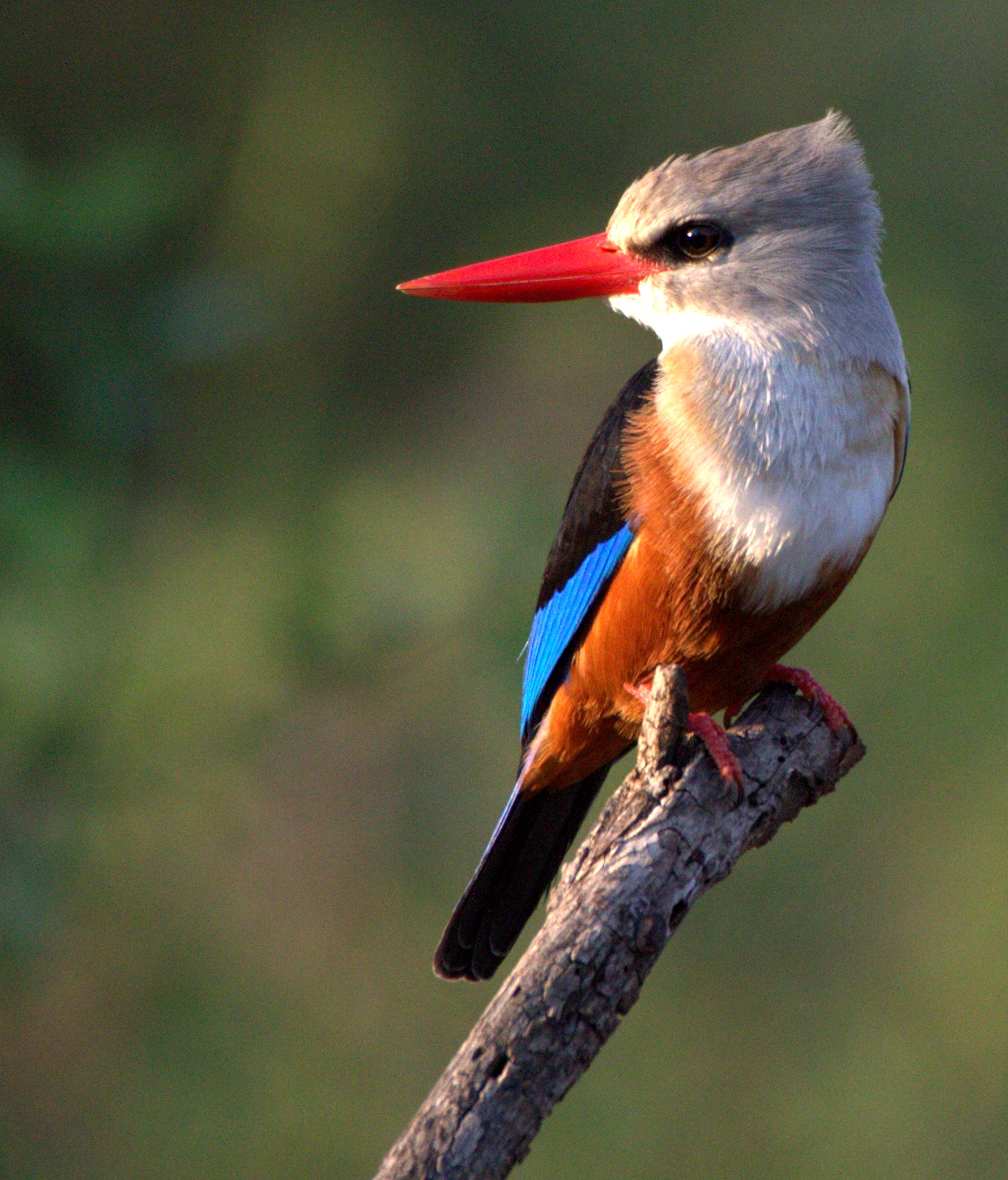 Grey-headed Kingfisher Halcyon leucocephala, Tanzania